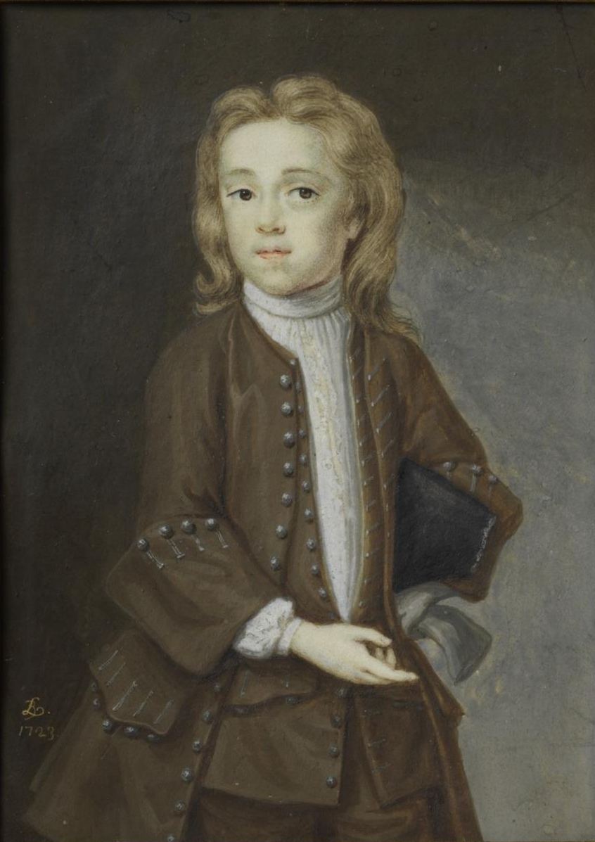 Bernard Lens III - 1723 - Portrait of Andrew Benjamin Lens, son of the artist (Victoria and Albert Museum, P.40-1922) Watercolour on vellum, 103 x 77 mm Portrait miniature of Andrew Benjamin Lens, son of the artist, watercolour on vellum. The boy is possibly around 7 to 10 years old, with long blonde hair and a hat under his arm. He is gesturing gracefully and wears a heavy brown coat with studs. Initalled and dated by the artist.